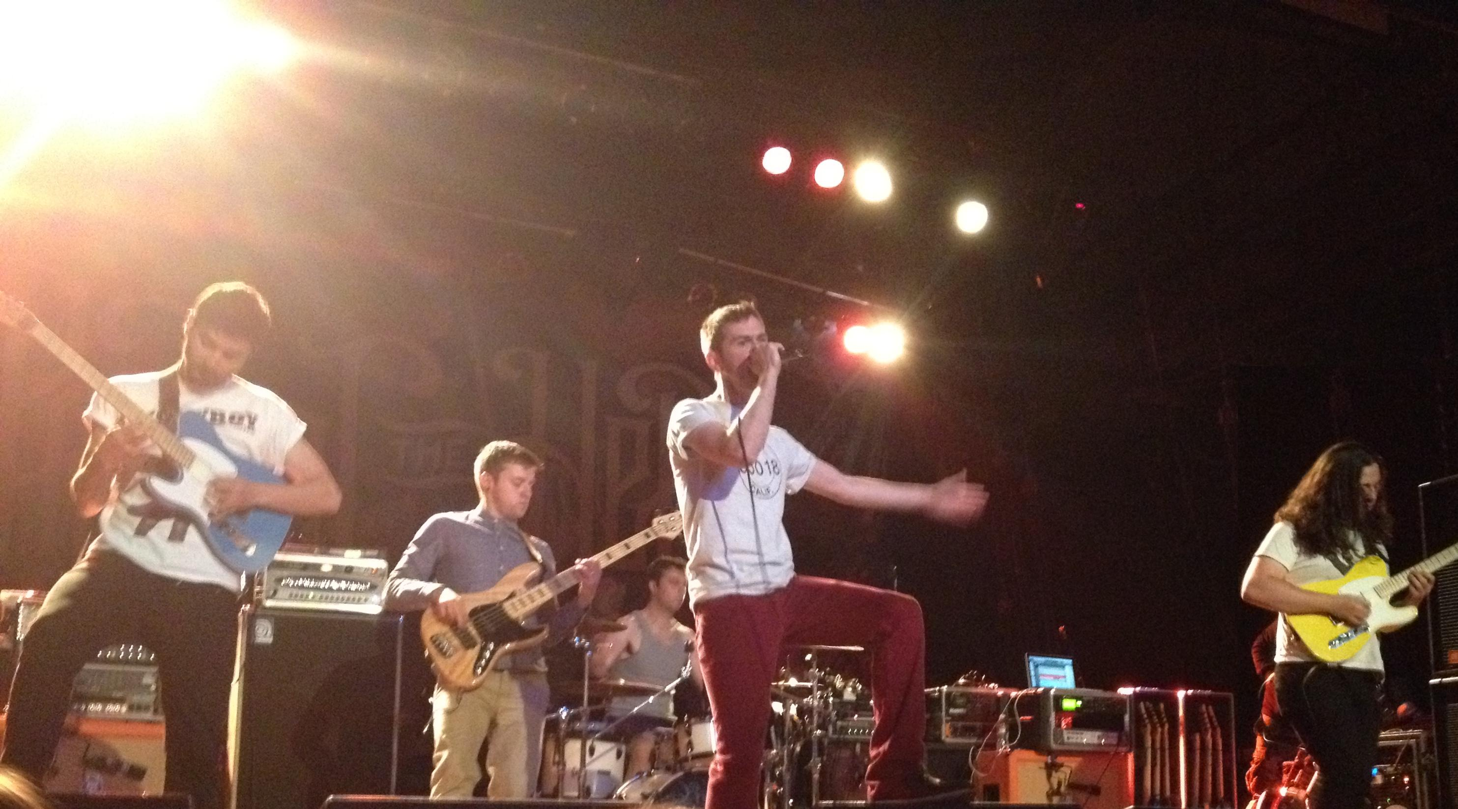 Live at the Trocadero in Philadelphia PA